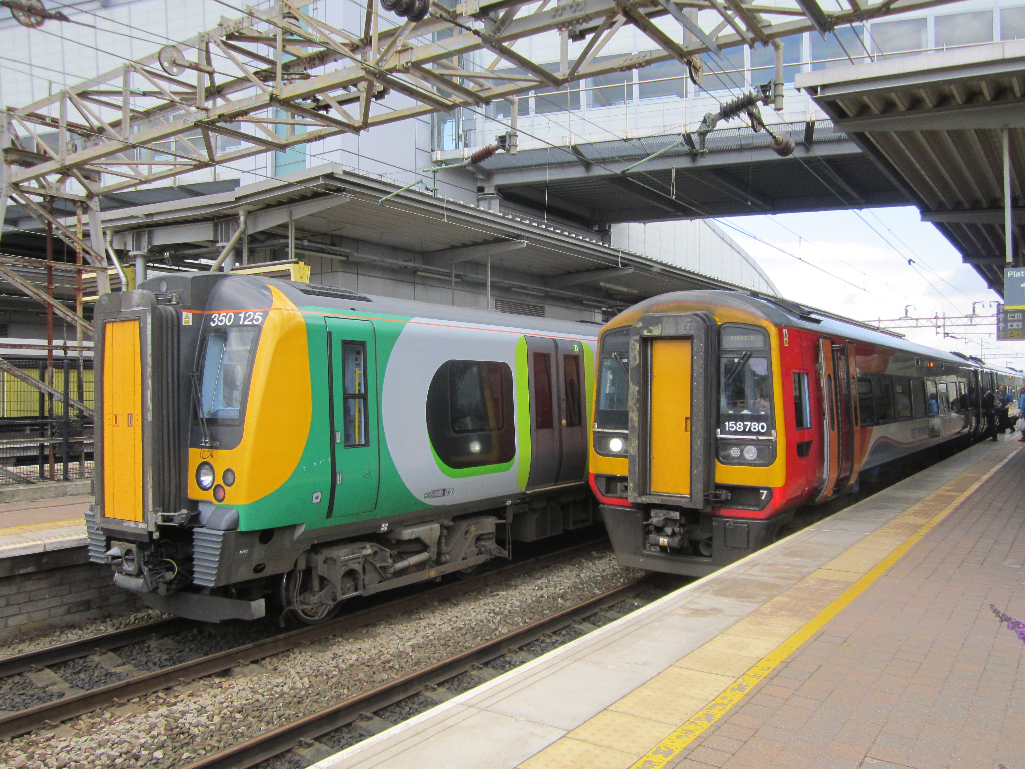 350125 and 158780 at Liverpool South Parkway railway station, England.